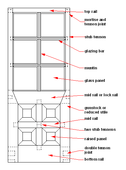 Sketch by Bill Bradley. billbeee (talk) 07:25, 26 December 2007 (UTC) Feel free to use it, just credit me as the creator. You can contact me through my website my website